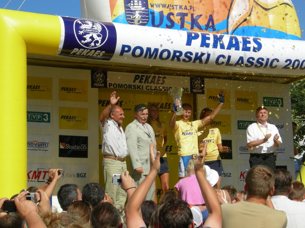 Winner of cycling race "Pomorski Classic" - Krzysztof Jeżowski, Ustka 2006.